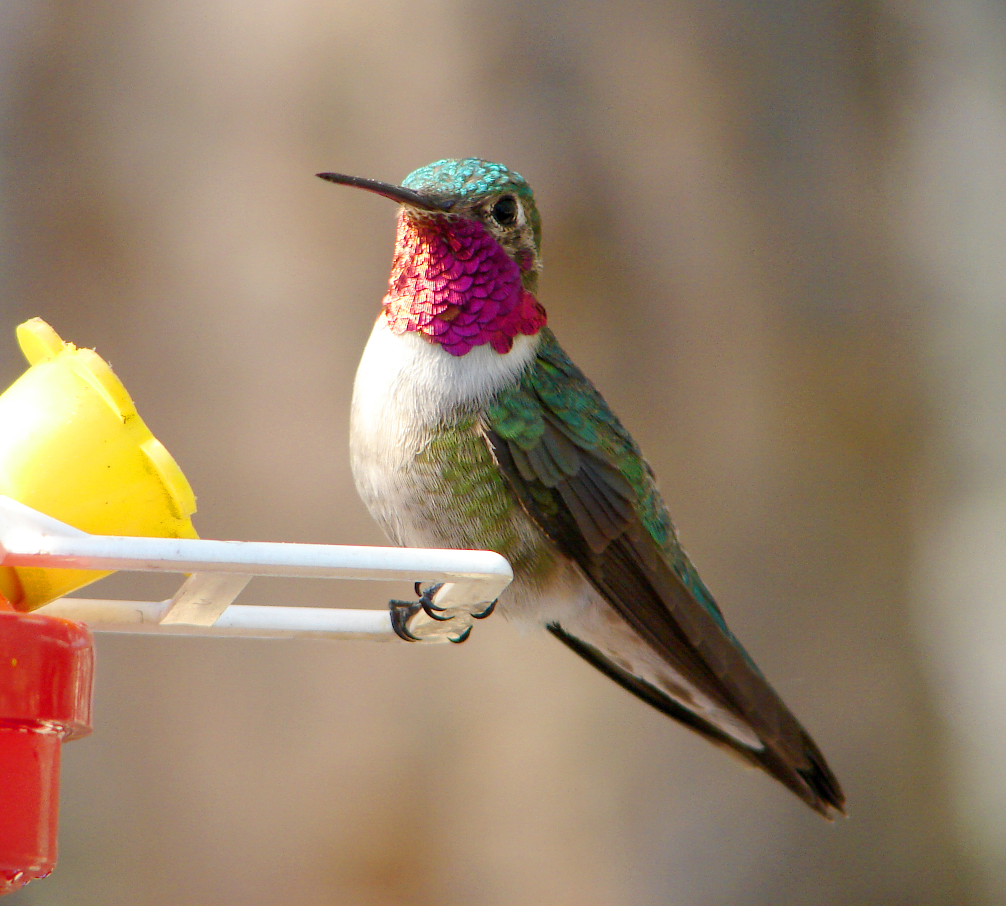 A male Broad-tailed Hummingbird feeding.